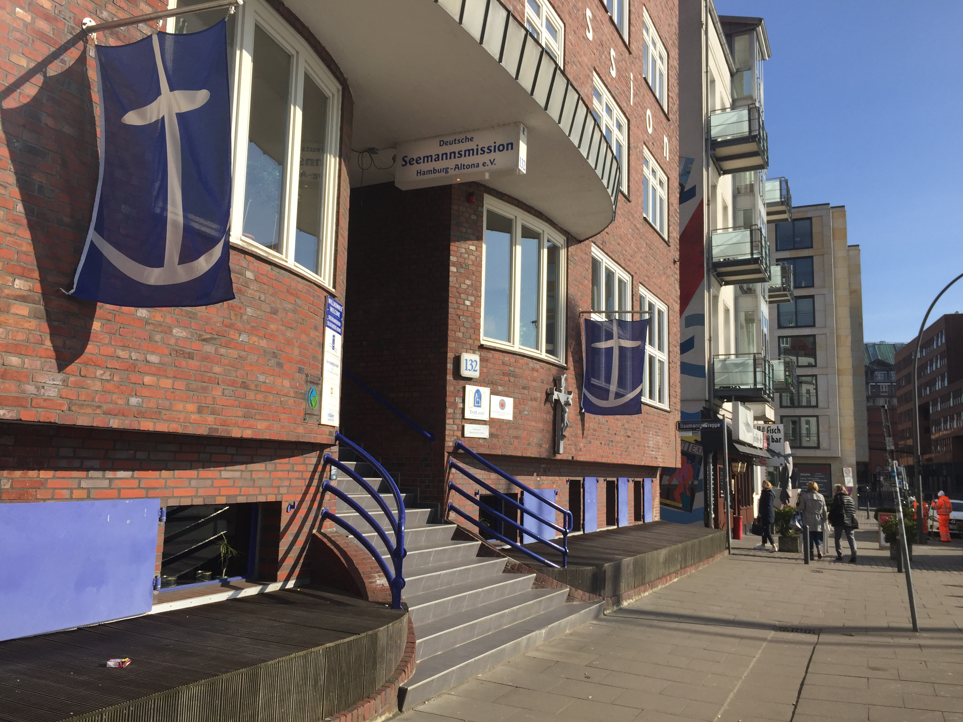 Seamen's Mission Altona - Deutsche Seemannsmission Hamburg-Altona Seamen's Home / Hotel for Seafarers built in 1930